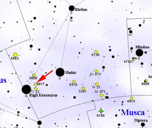 Mpa of NGC 5617